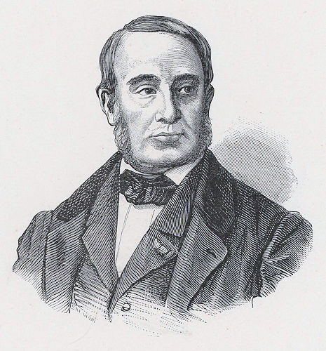 Senator Giuseppe Manno